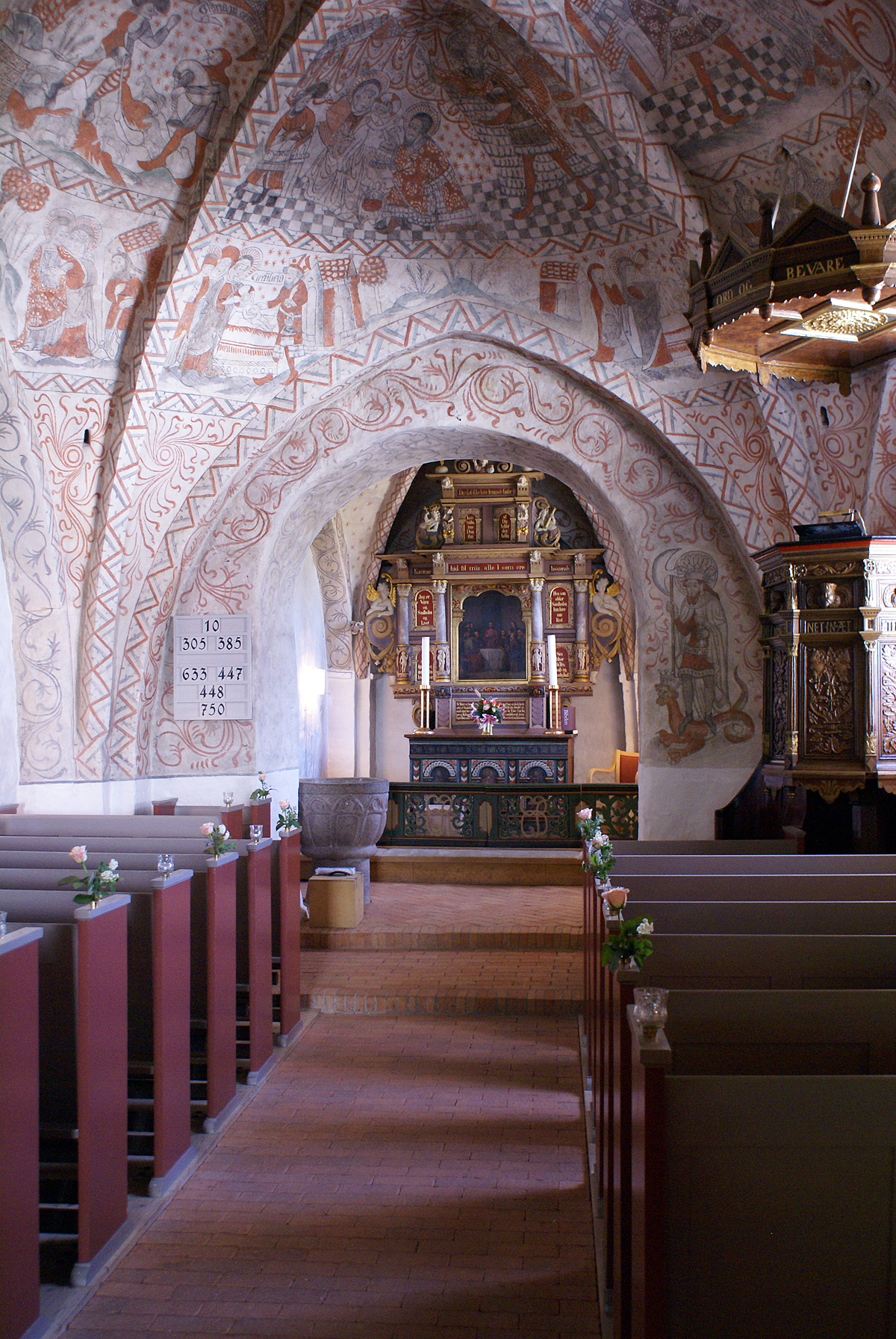 Murals in Tuse Church in the small town of Tuse, west of Holbæk, Denmark